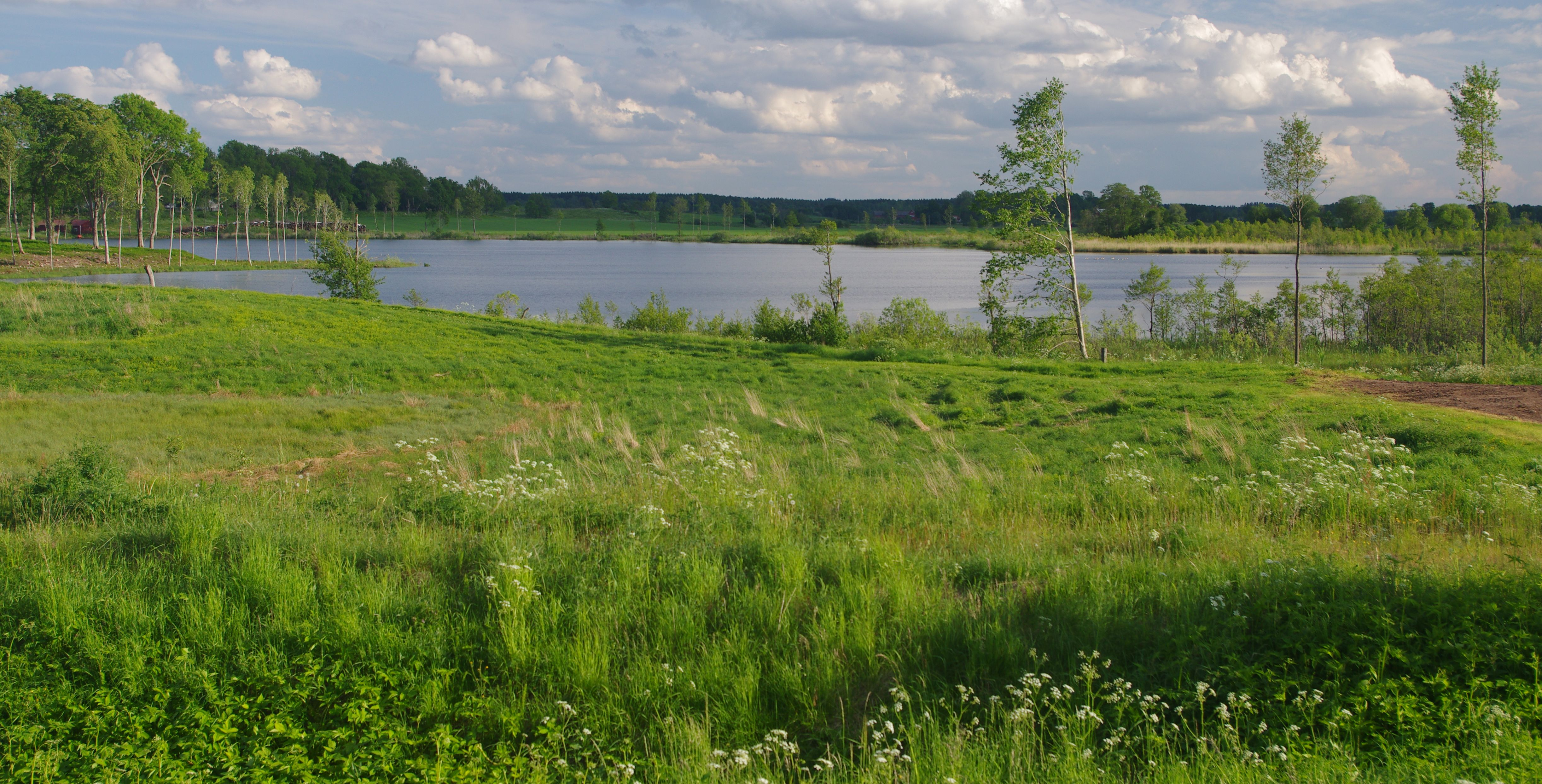 Vartoftasjön: Lake in Västergötland Sweden